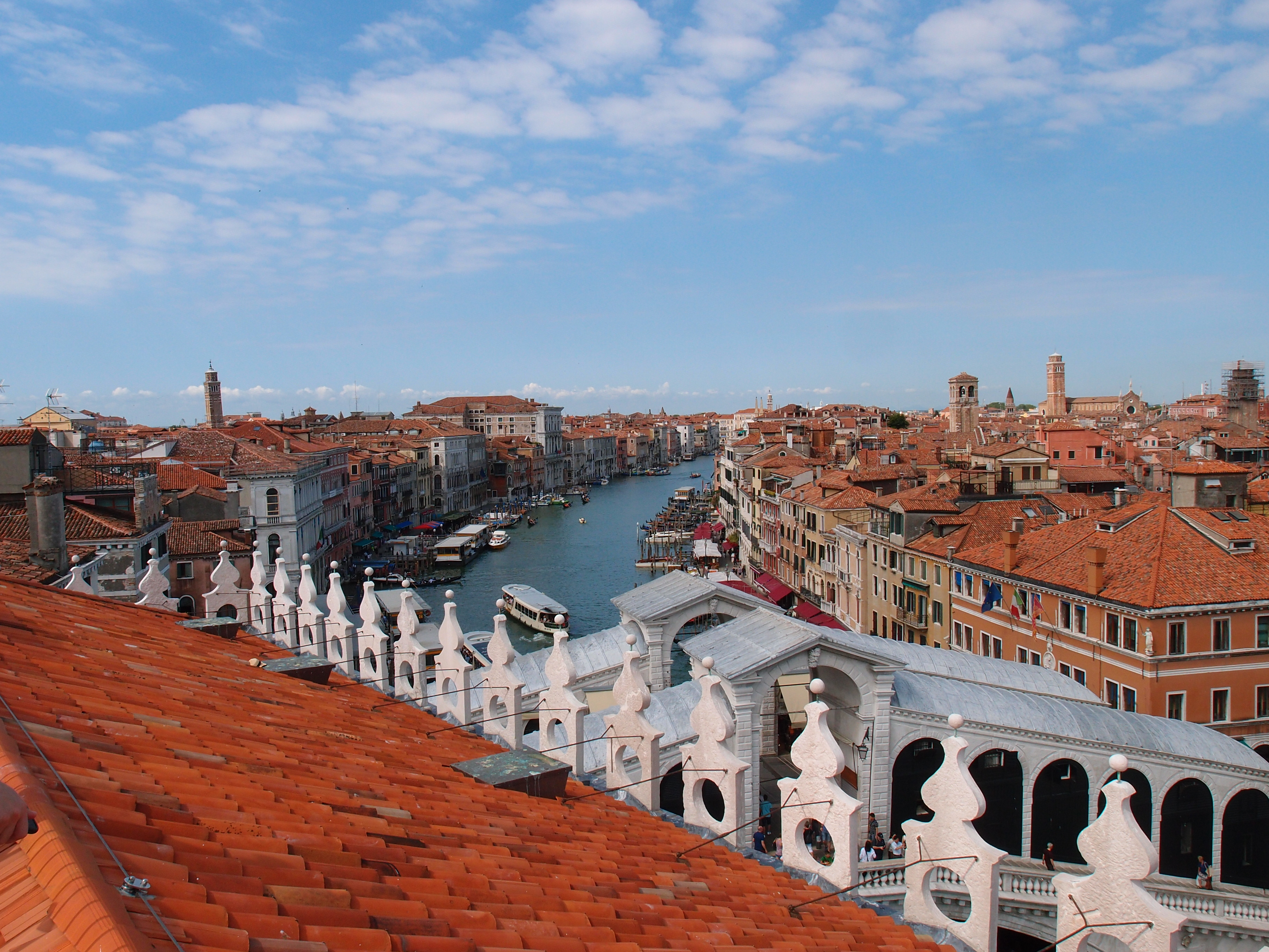 View from the top of the Fondaco dei Tedeschi building to the Grand Canal and Rialto bridge of Venice